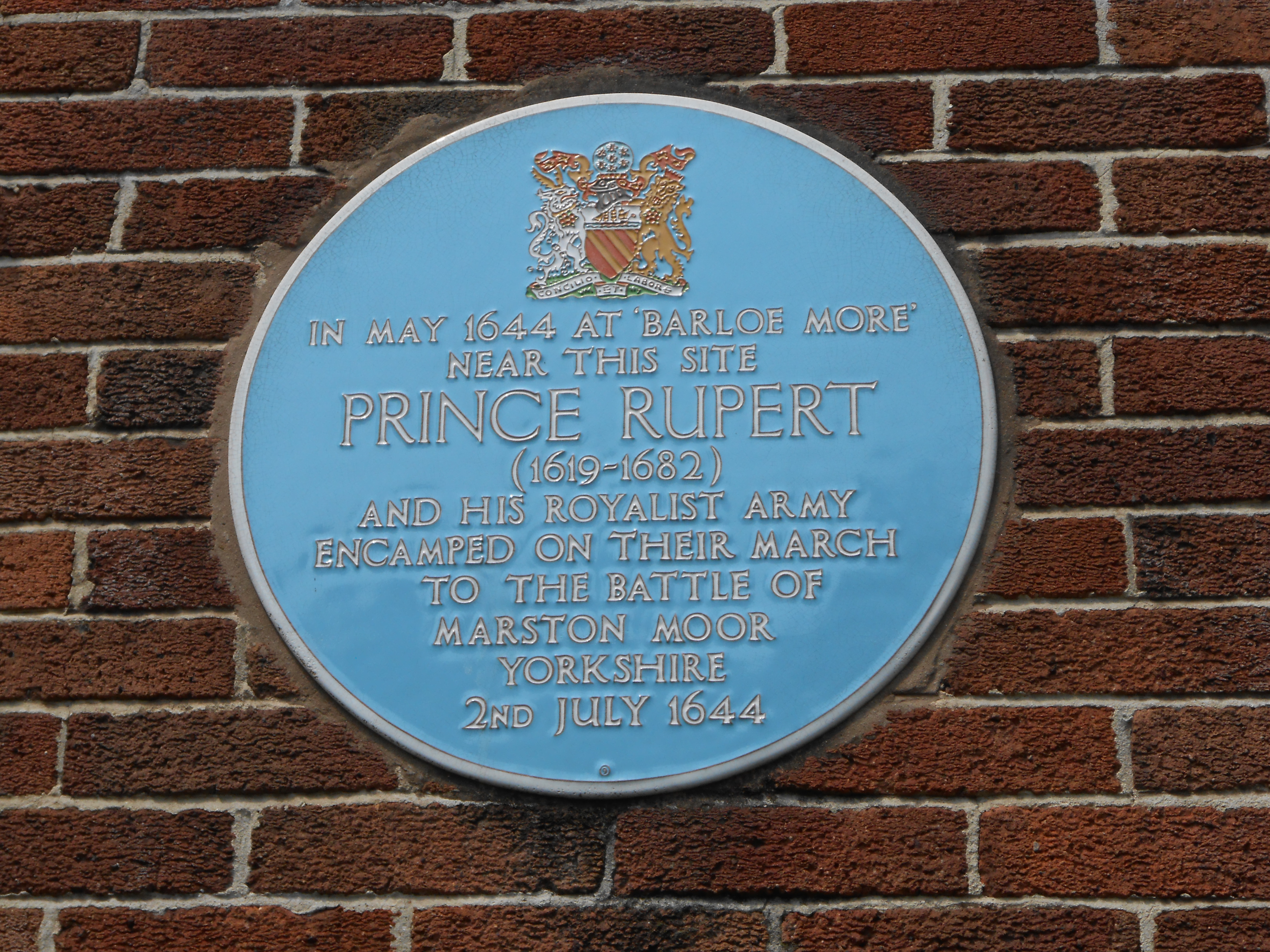 Photo taken at Didsbury Library, Manchester, England.